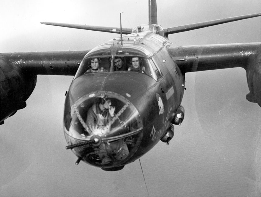 Very interesting closeup view of Martin B-26B-20-MA Marauder 41-31765 "Fightin' Cock" [ER-X] of the 450th BS 322nd BG 9th AF. Aircraft was later lost to a landing accident at RAF Great Dunmow on 12 Aug 44 due to battle damage received over France[1].